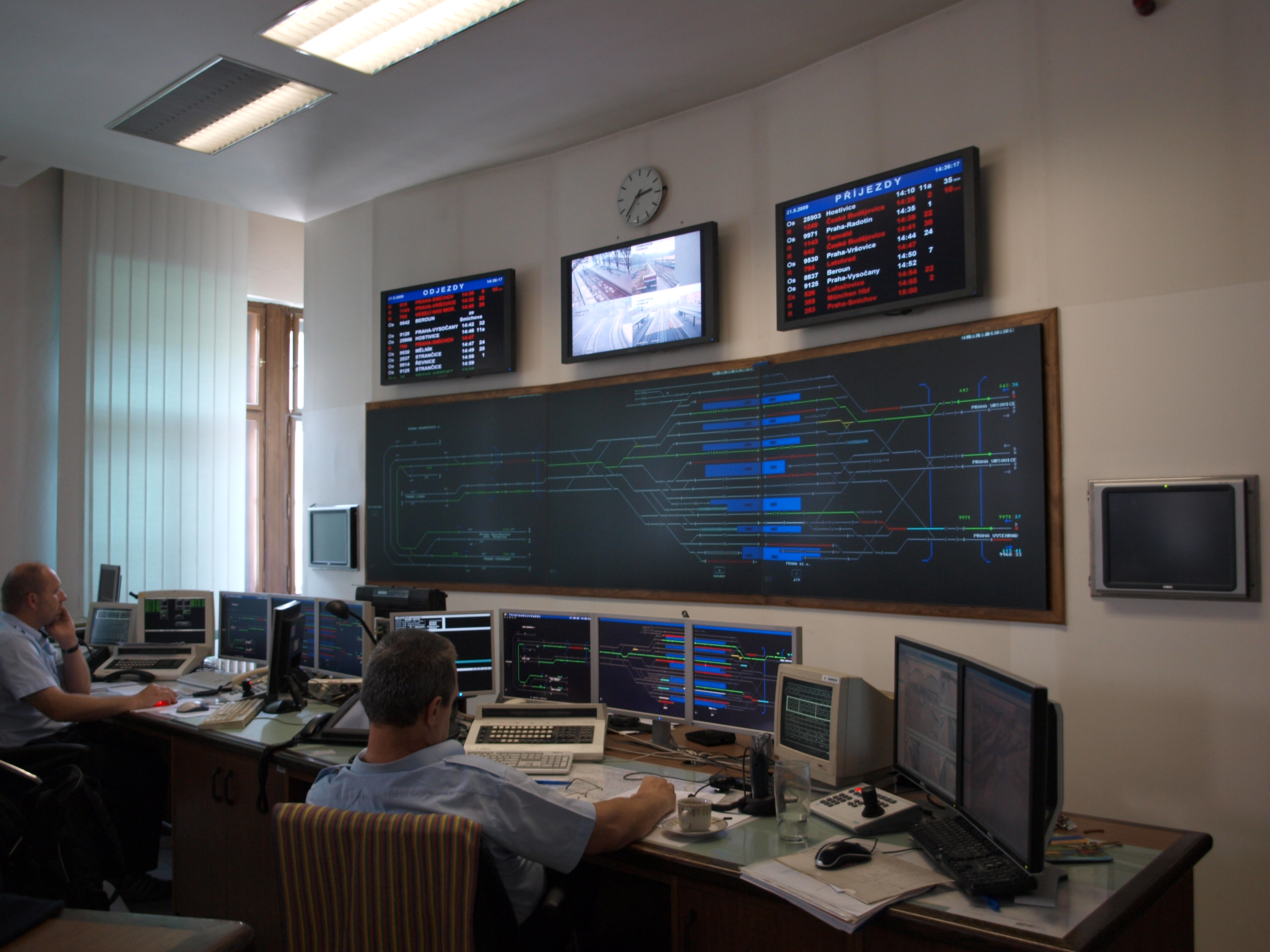 Interior of logistic centrum, "Den Eska", Prague.